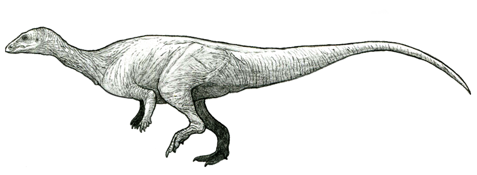 Life reconstruction of Macrogryphosaurus by Tom Parker. Missing elements filled in from Talenkauen.